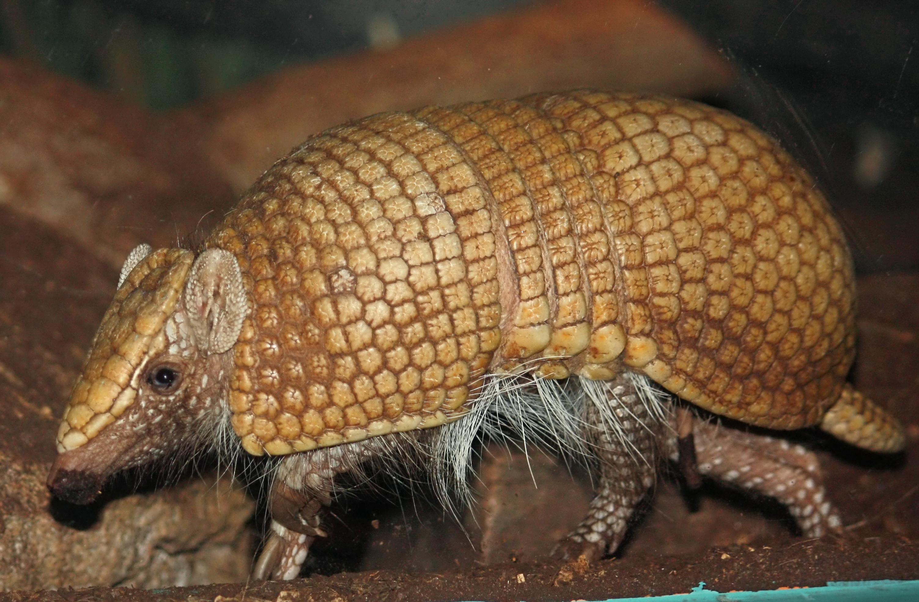 Southern Three Baned Armadillo Tolypeutes matacus at Louisville Zoo